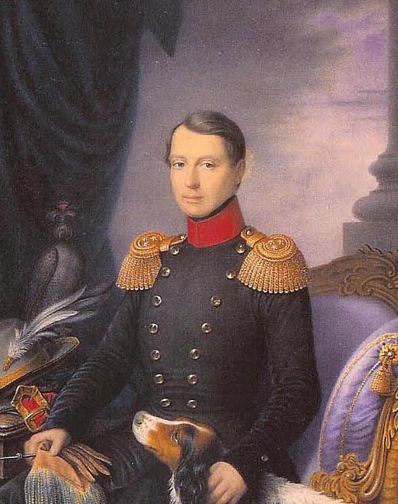 Portrait of Prince Alexander of the Netherlands